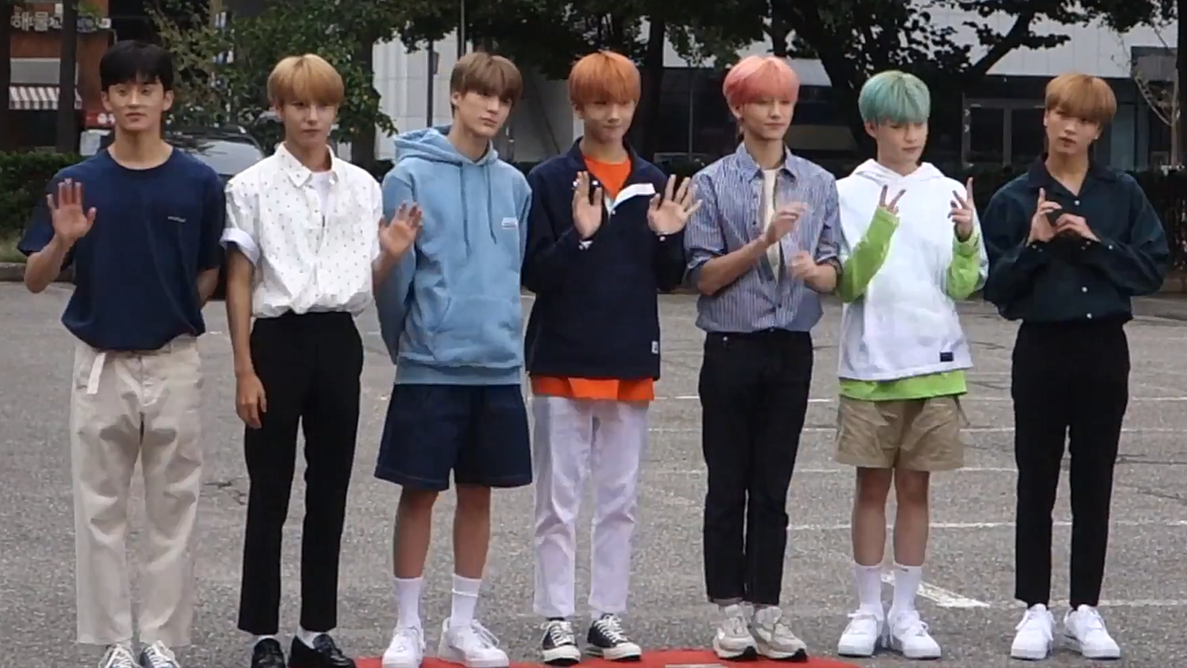 NCT Dream going to a Music Bank recording on August 31, 2018.